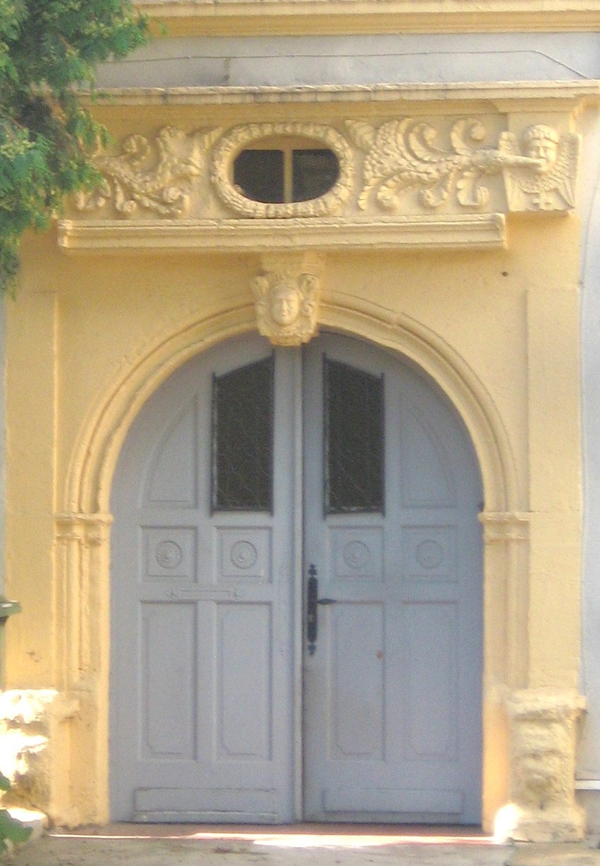 Description porte Château de Remelange Fameck Date7 September 2011Sourcemon appareil photoAuthorAimelaimePermission(Reusing this file) porte Château de Remelange Fameck